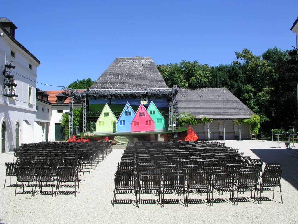 The stage of the Schwechat Nestroy Spiele in 2010